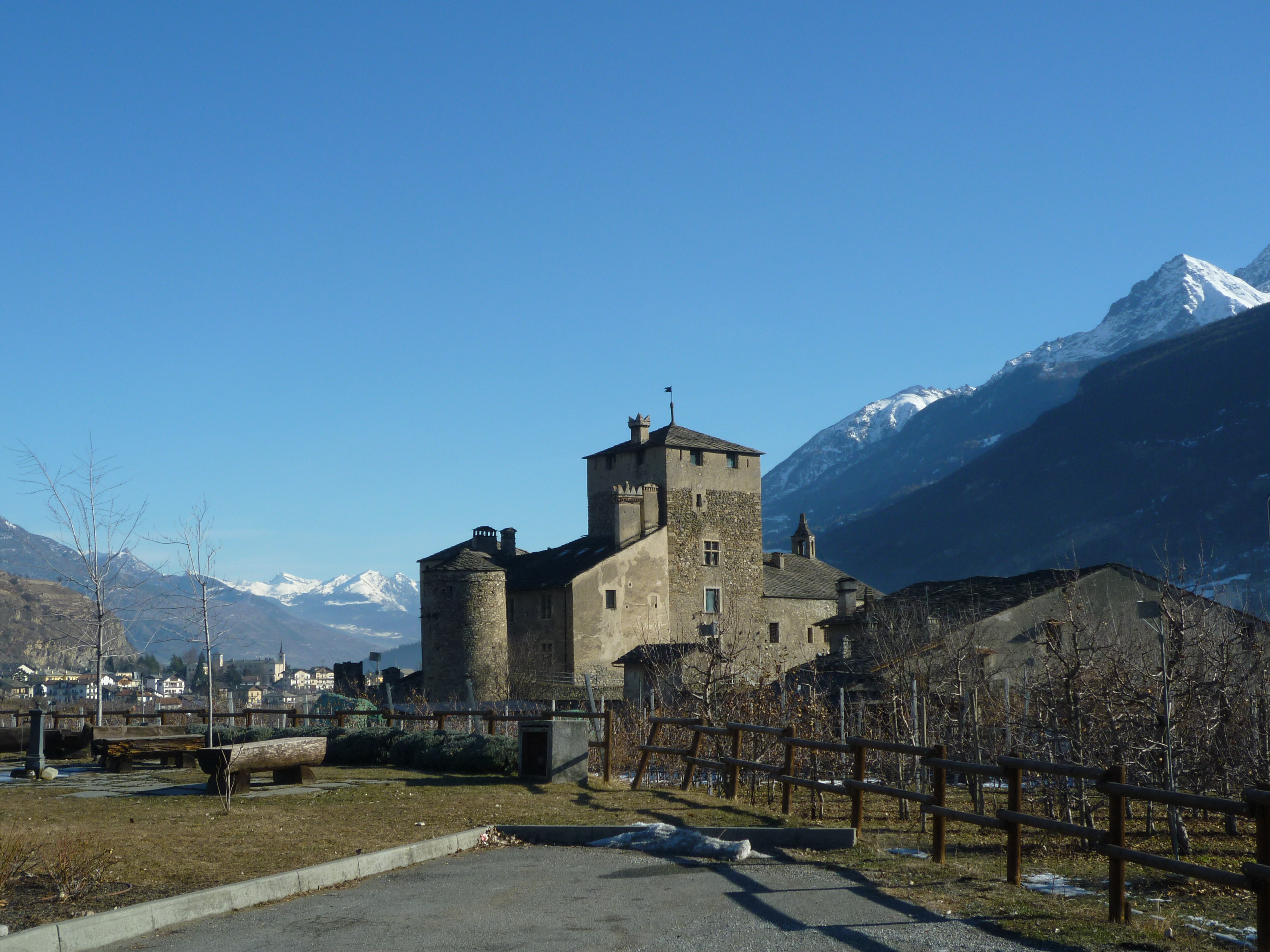 Sarriod de la Tour castle in Saint-Pierre (Aosta Valley, Italy)